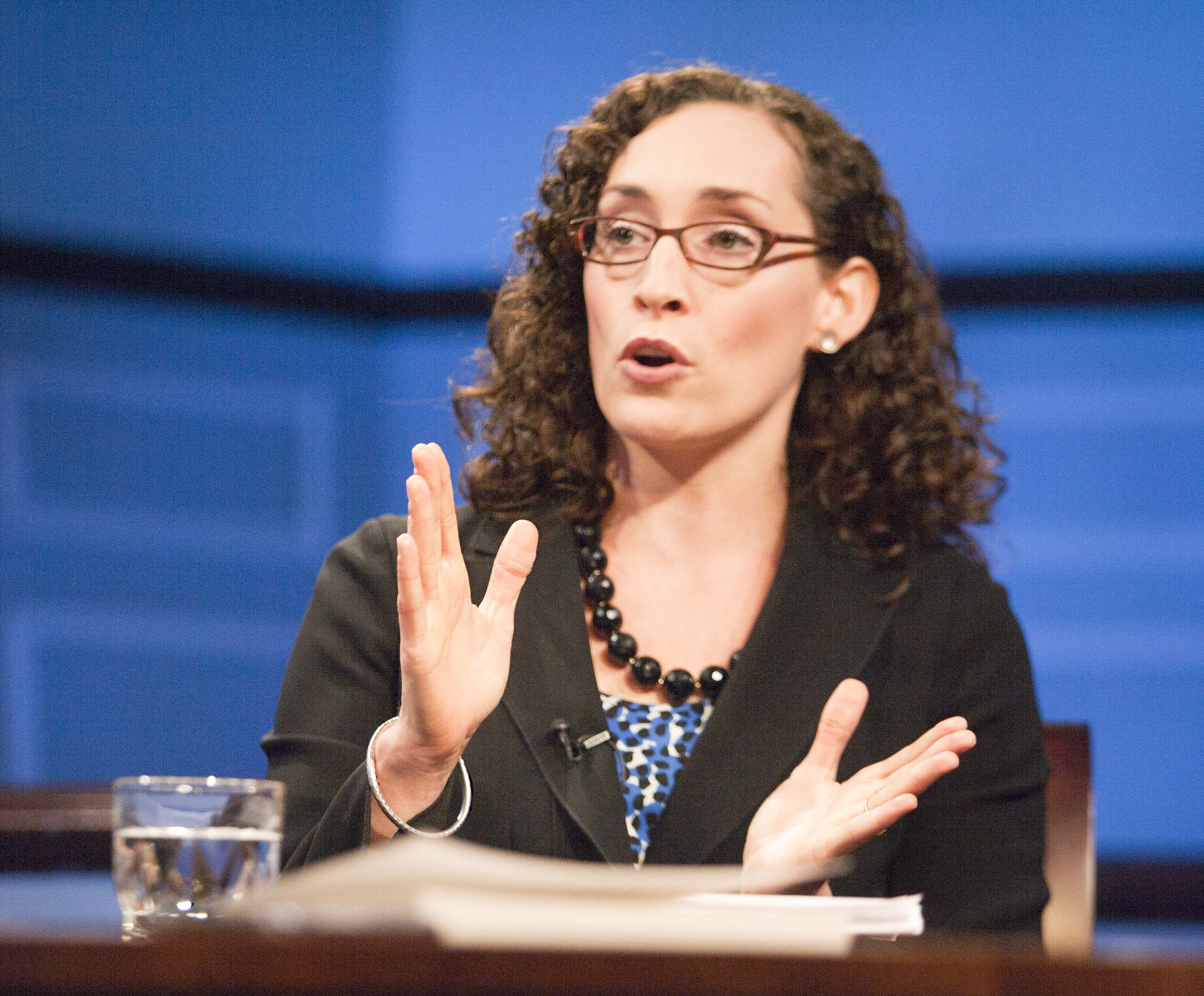 Vesla Weaver, Arresting Citizenship: The Democratic Consequences of American Crime Control; 9.24.14